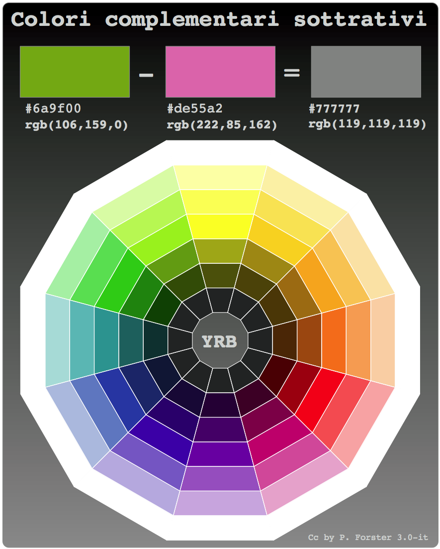 Color wheel : Subtracting complementary colors (YRB)